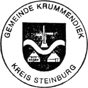 Seal of the municipality Krummendiek in Schleswig-Holstein, Germany